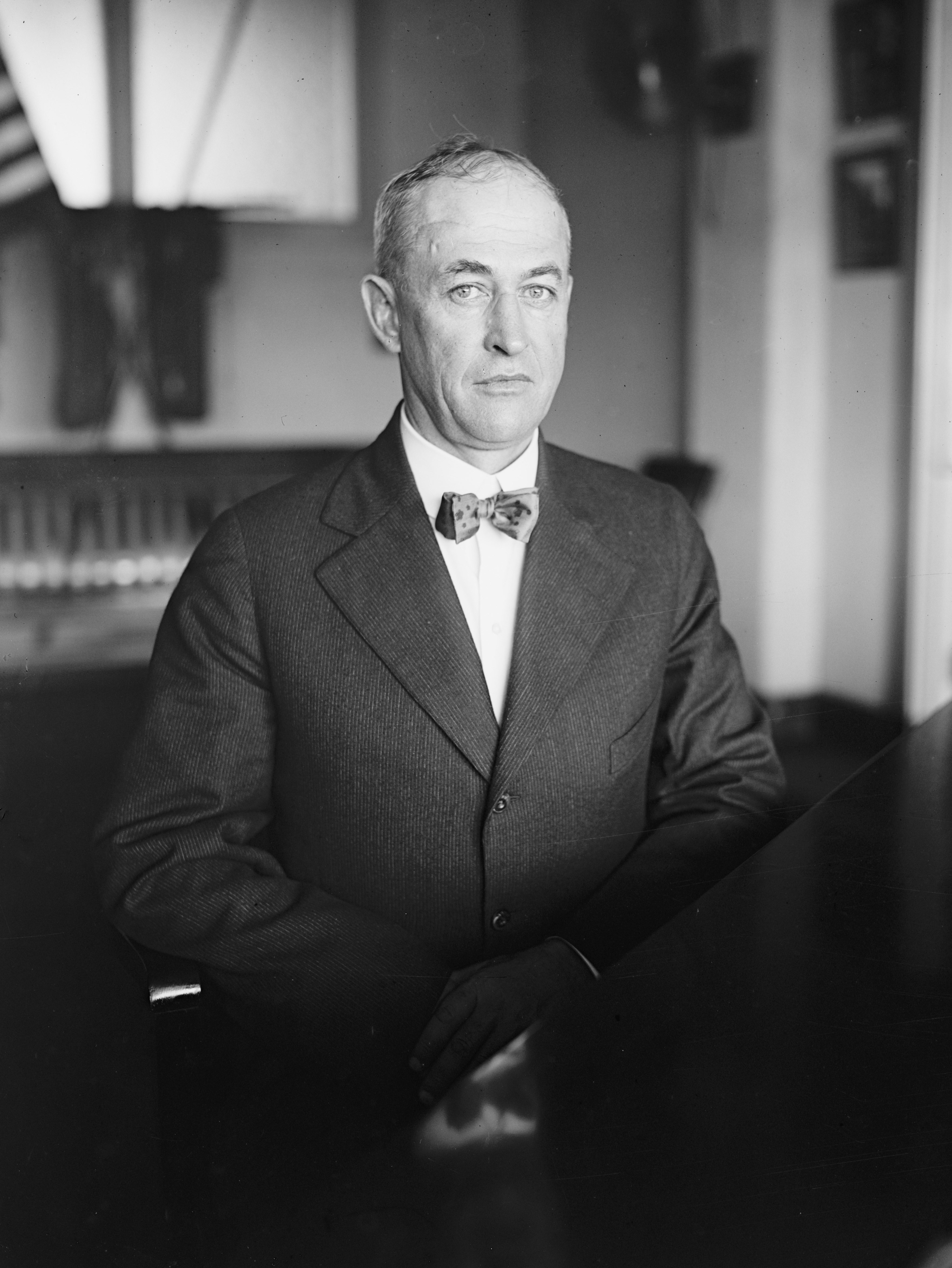 Title: Maj. Gen. Malin Craig, Chief of Cavalry, 8/26/24 Abstract/medium: 1 negative : glass ; 5 x 7 in. or smaller